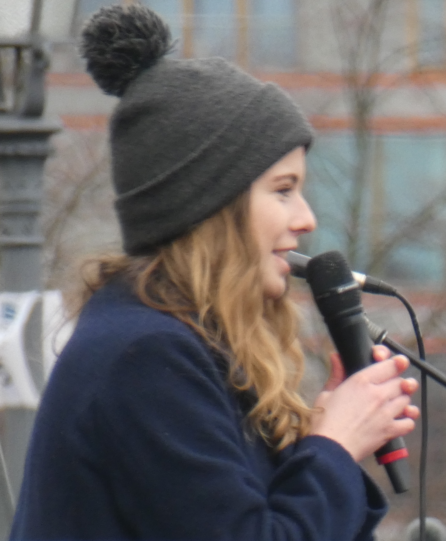 Fridays for future, Berlin, 2019-03-29